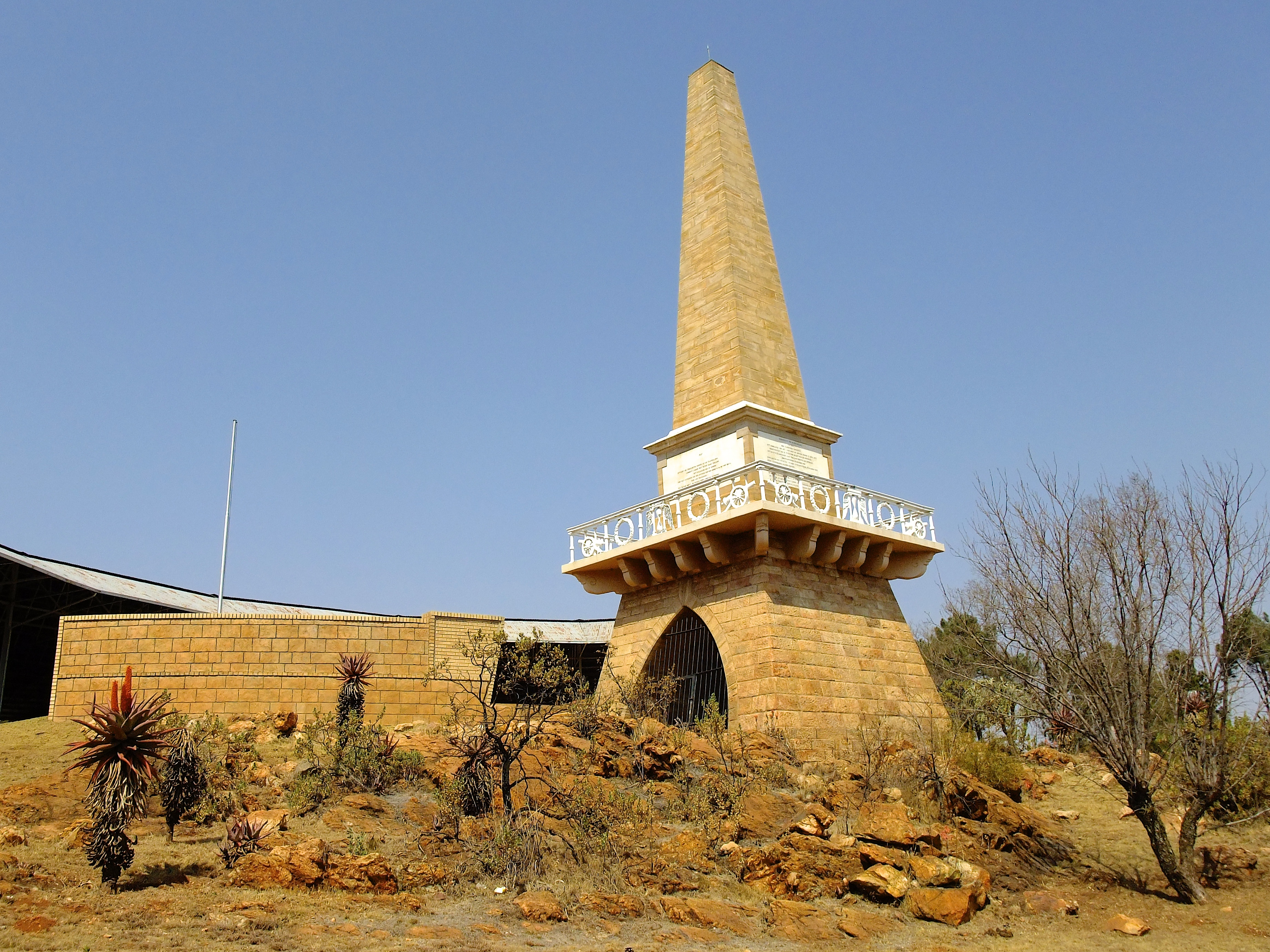 Paardekraal Monument, Paardekraal Drive, Krugersdorp This media shows a South African Protected Site with SAHRA file reference 9/2/233/0005.